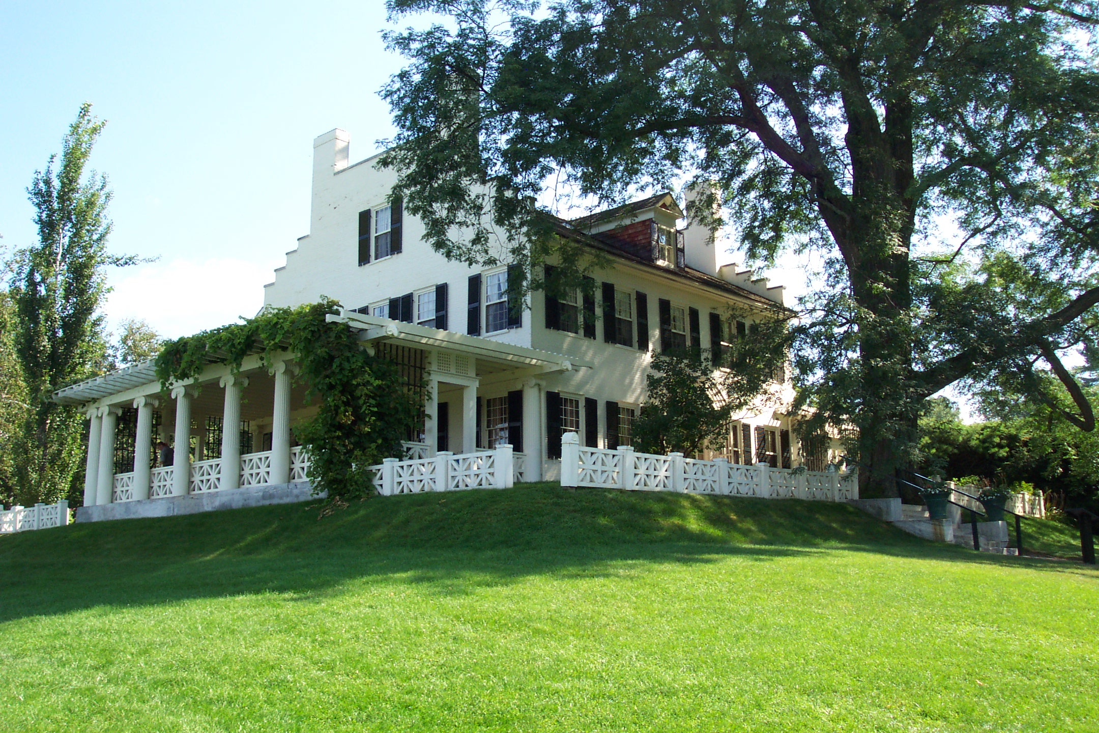 Aspet House at Saint-Gaudens National Historic Site, New Hampshire, USA